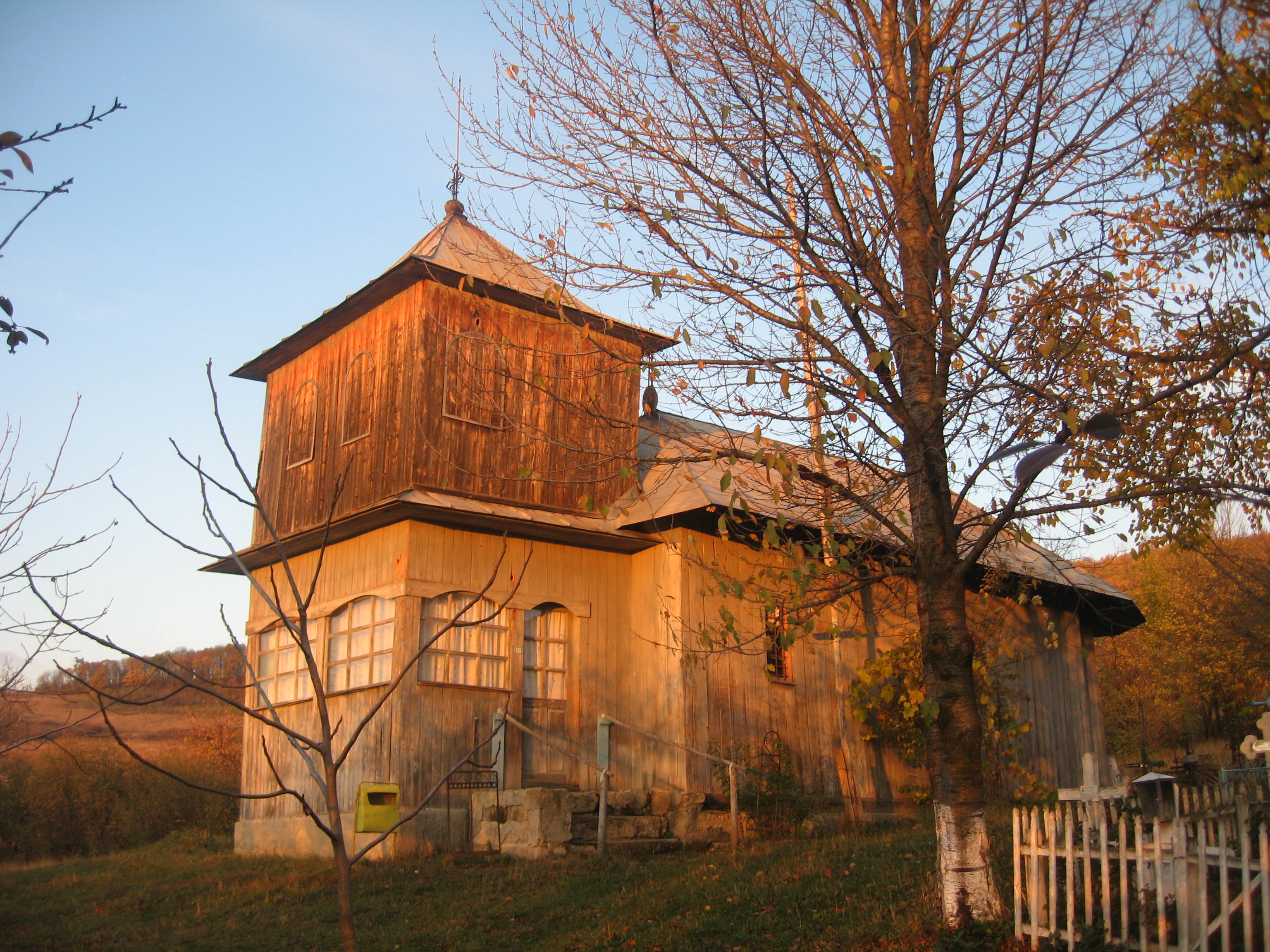 Biserica de lemn din Popeşti, Vaslui